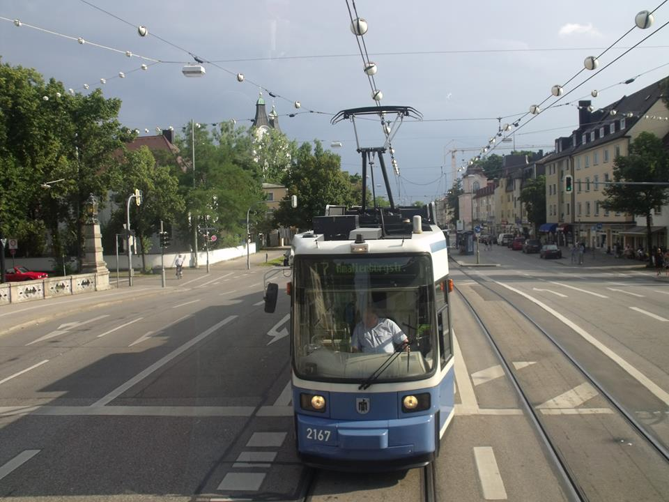 tramvay nəqliyyat vasitəsidir.